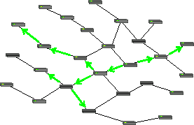 A multicast forwarding pattern in a computer network 26 Sep 2005